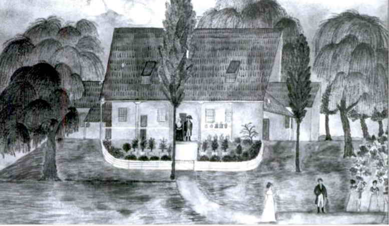 Monochrome reproduction of watercolor of Box Grove, Coxs Corner, Monmouth County, New Jersey where the artist lived.